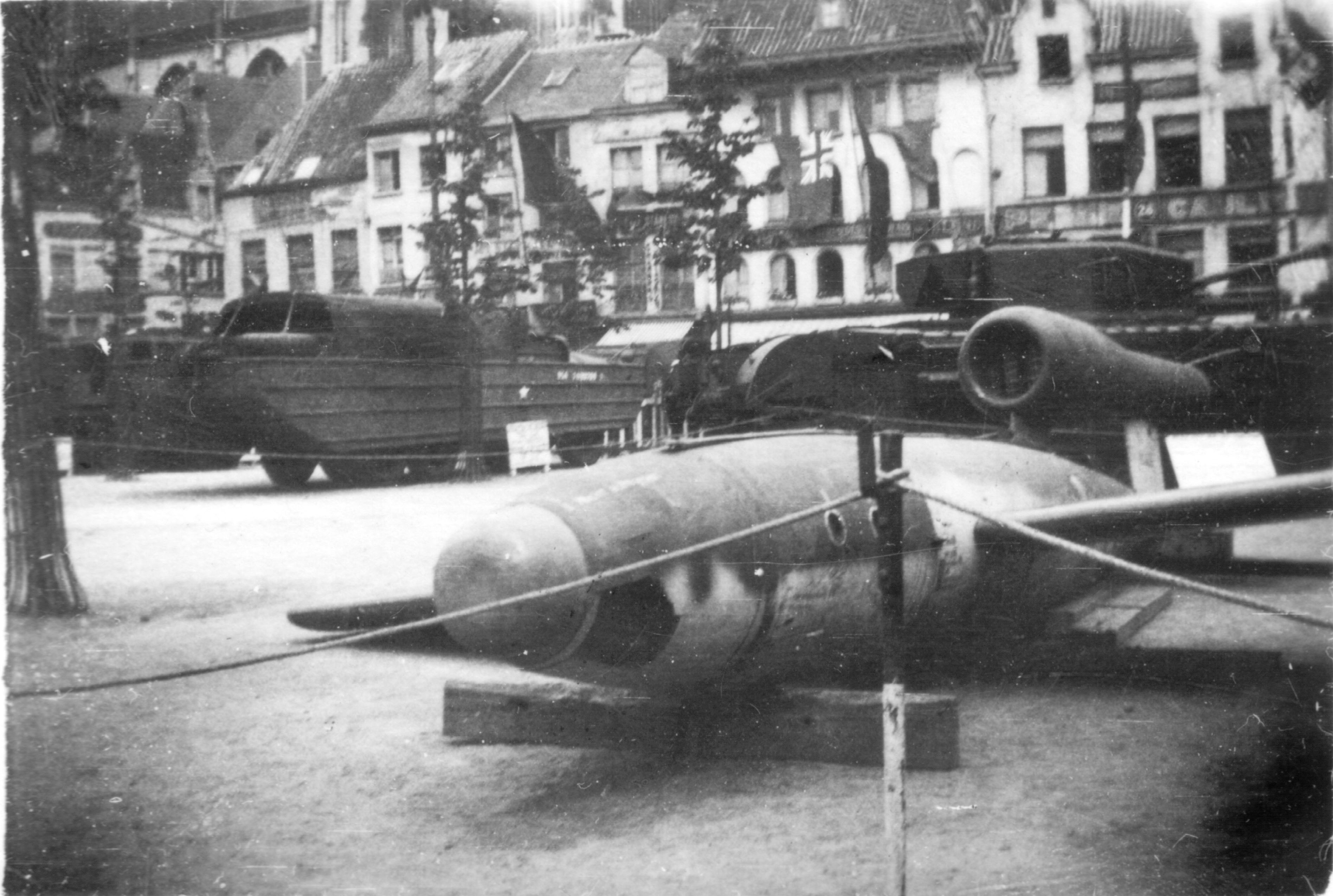 The photo shows a V-1 on display on the Groenplaats, Antwerp (in the backgound DUKW landing craft), possibly in the aftermath of a victory parade. Photo taken by my grandfather Jan B.H.A. Vervloedt, now in the family archives. The Fieseler Fi 103, better known as V-1 (German: Vergeltungswaffe 1) was an early cruise missile used during World War Two. The V-1 was developed at Peenemünde by the German Luftwaffe during the Second World War. Between 13 June 1944 and 29 March 1945, it was fired at population centres such as London and Antwerp.